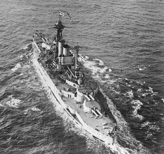 Aerial photograph from astern of British battleship HMS Queen Elizabeth, c.1918